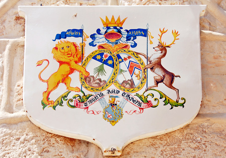 Montifiore heraldry